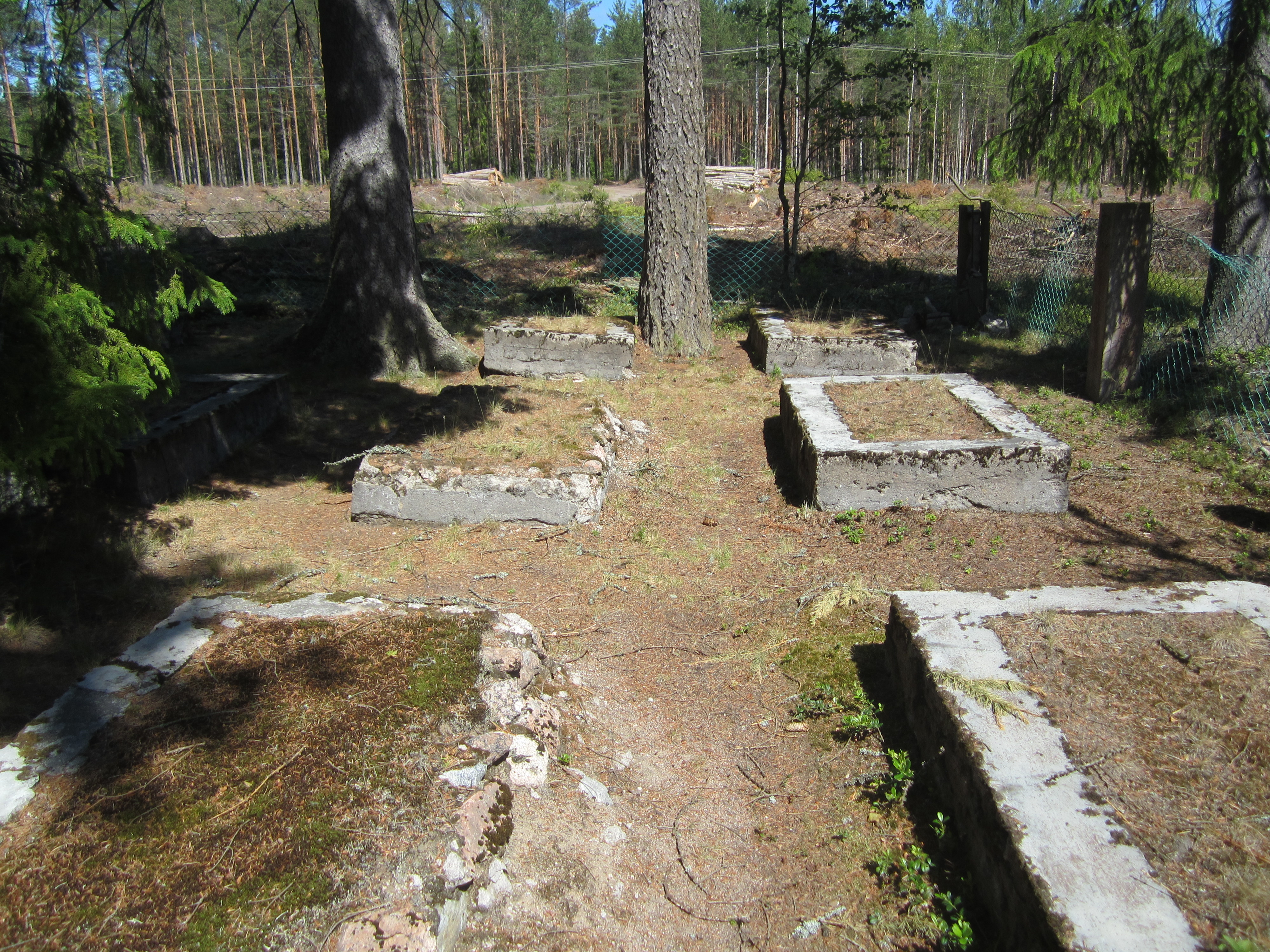 Old Orthodox cemetery near Hamina. Graves of Jewish soldiers who served in the Russian Imperial Army. (Cantonist)